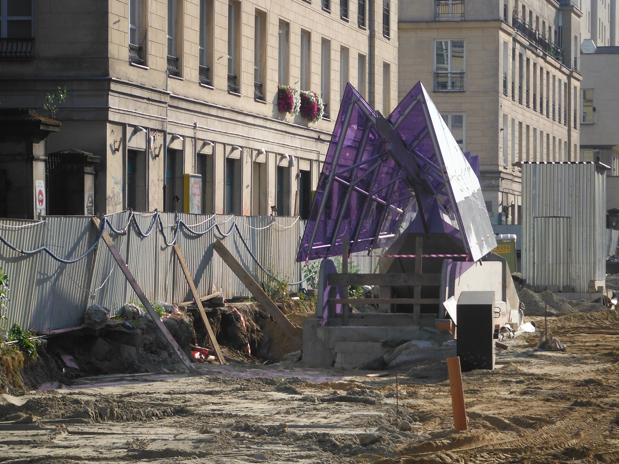 "Nowy Świat-Uniwersytet" metro station (under construction) in Warsaw (2nd of August 2014).